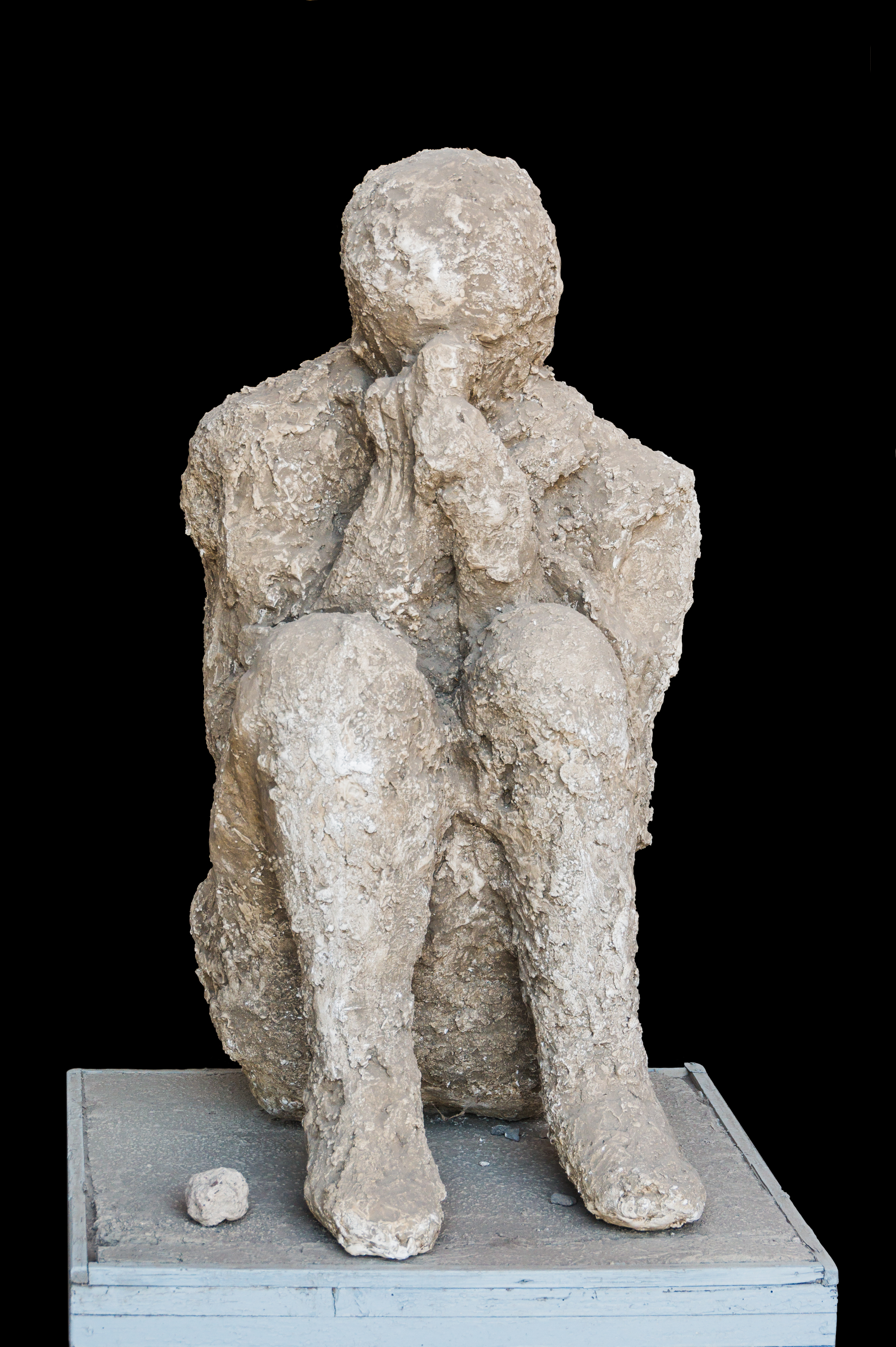 Cast of a sitting victim of the eruption of Mount Vesuvius, 79 CE, Pompeii, Italy.